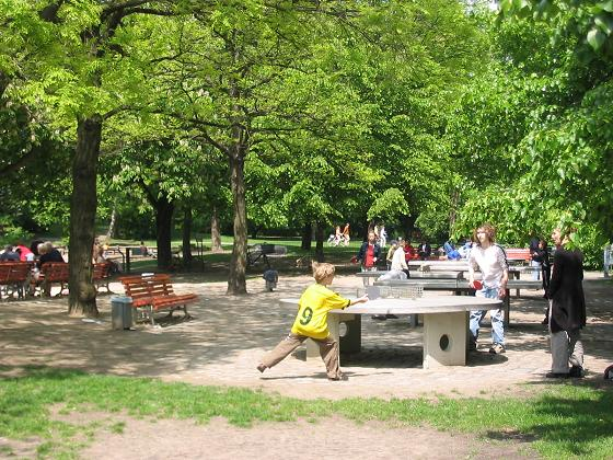 Volkspark Wilmersdorf in Berlin; table tennis at so-called RIAS playground